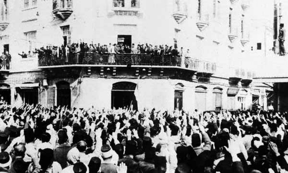 The National Bloc in Damascus before heading to Paris for independence talks with French Prime Minister Leon Blum. The picture was taken on March 31, 1936 and it shows the Bloc leaders, headed by Jamil Mardam Bey, on a balcony saluting the Syrian masses.